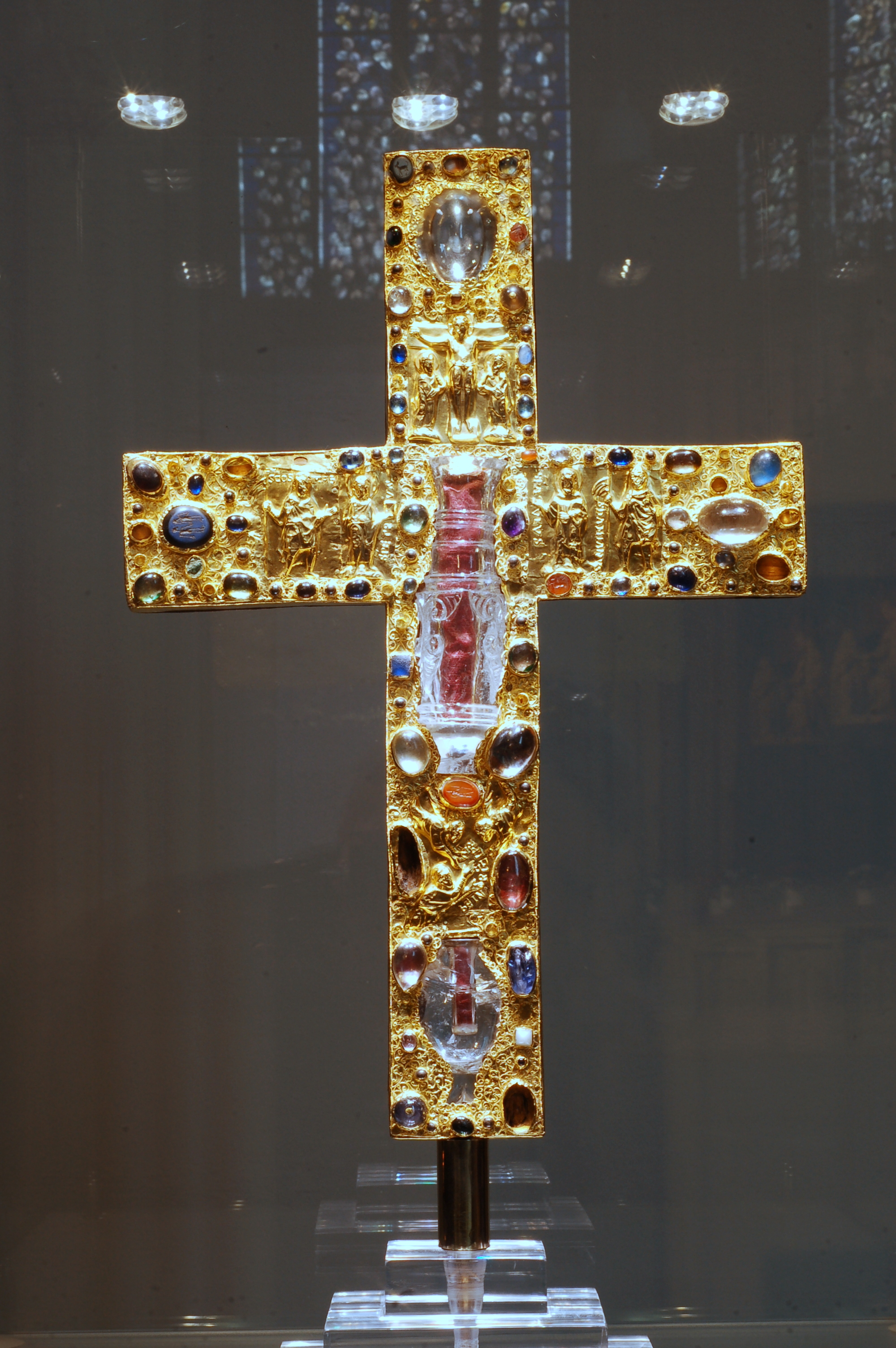 The cross of the "Borghorst Monastery" (11th century)